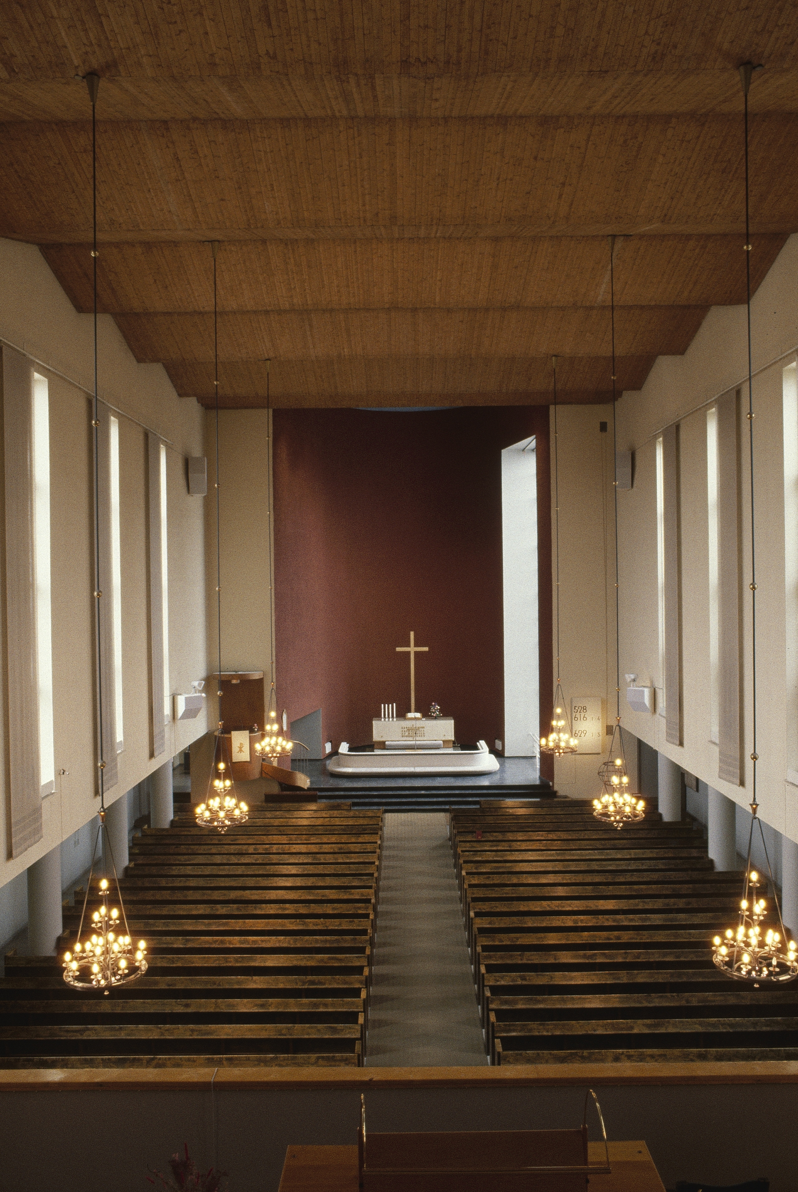 Nakkila church, Finland. Architect Erkki Huttunen 1937.